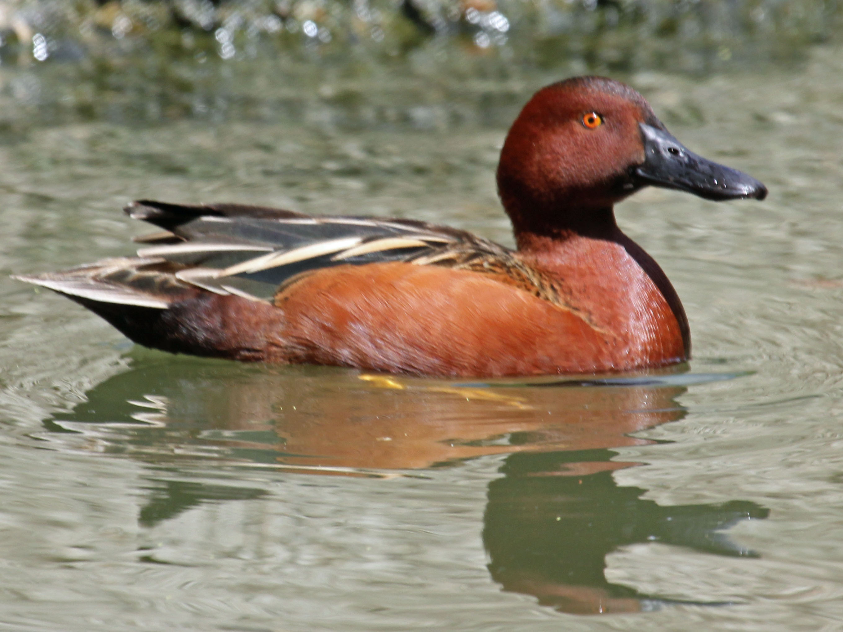 Male Cinnamon Teal (Anas cyanoptera) at Sylvan Heights Waterfowl Park in Scotland Neck, North Carolina.